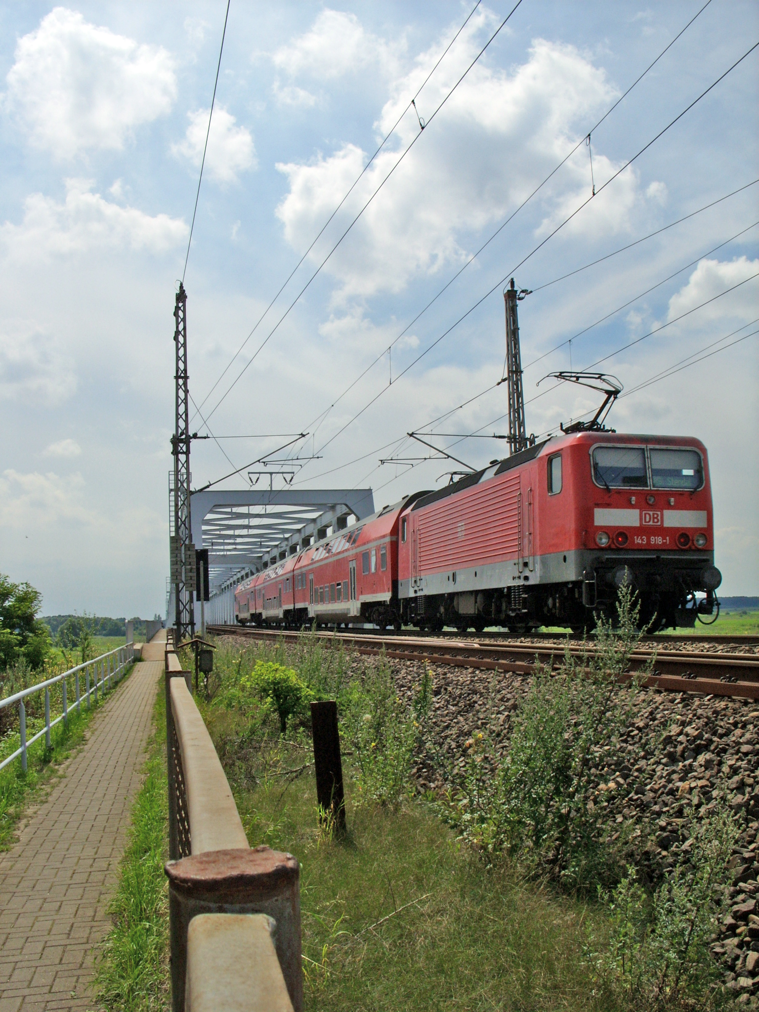 Regionaltrain with electric locomotive DB 143 918 and 3 double-decker Railroad cars on its way to Stendal at bridge over Elbe river near Wittenberge, Brandenburg, Germany